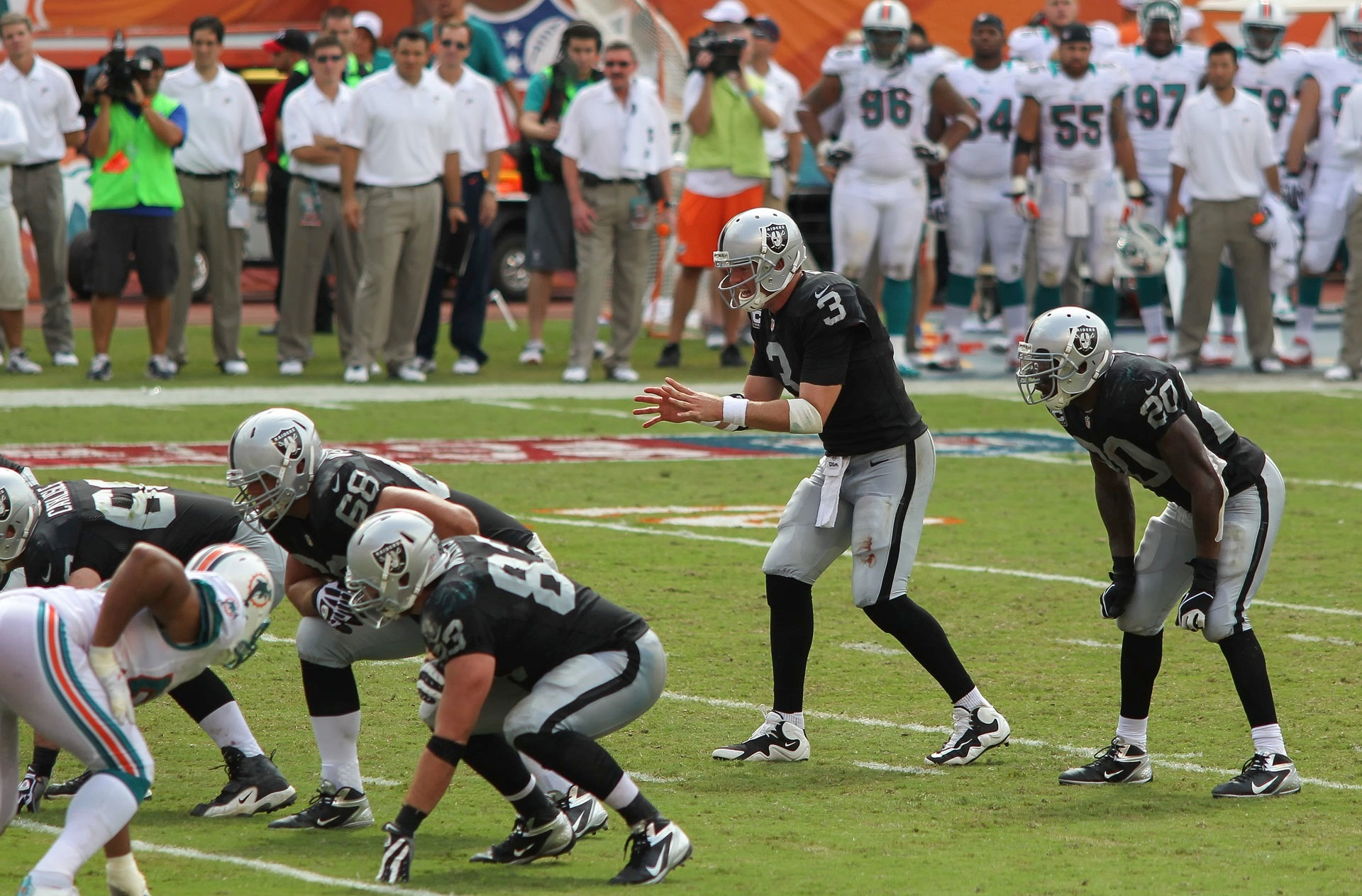 QB Carson Palmer #3 of the Oakland Raiders